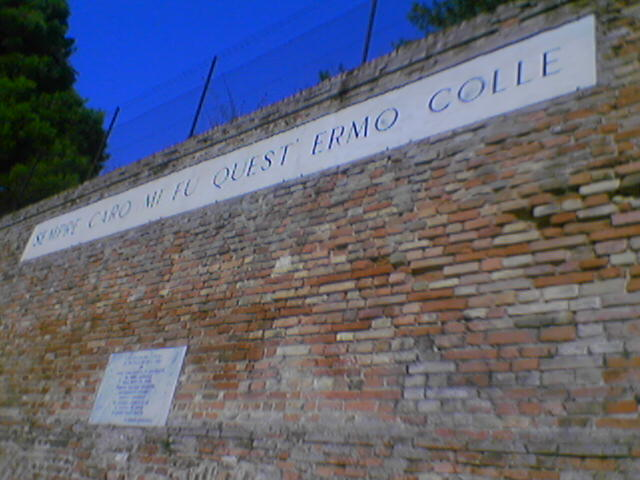 Recanati